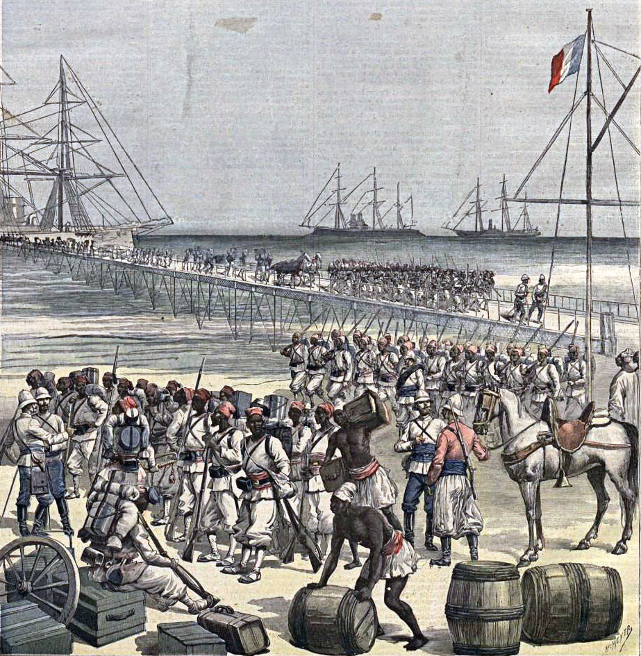 Disembarkation in Cotonou, present Benin, of the troops of the French army, with Senegalese soldiers in front row